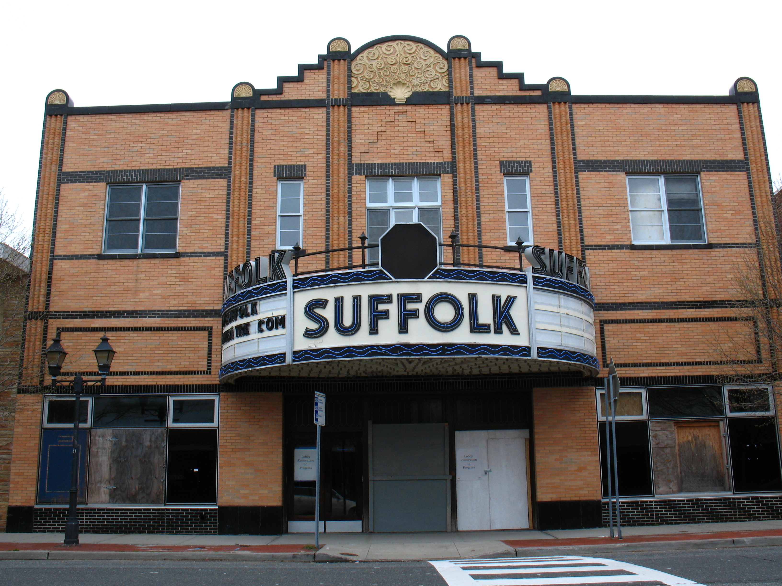 Front view of Suffolk Theatre located in Riverhead, New York.